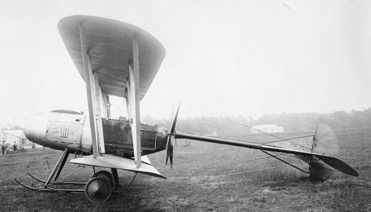 A side view of the Royal Aircraft Factory F.E.3 experimental pusher biplane showing the novel tailboom layout